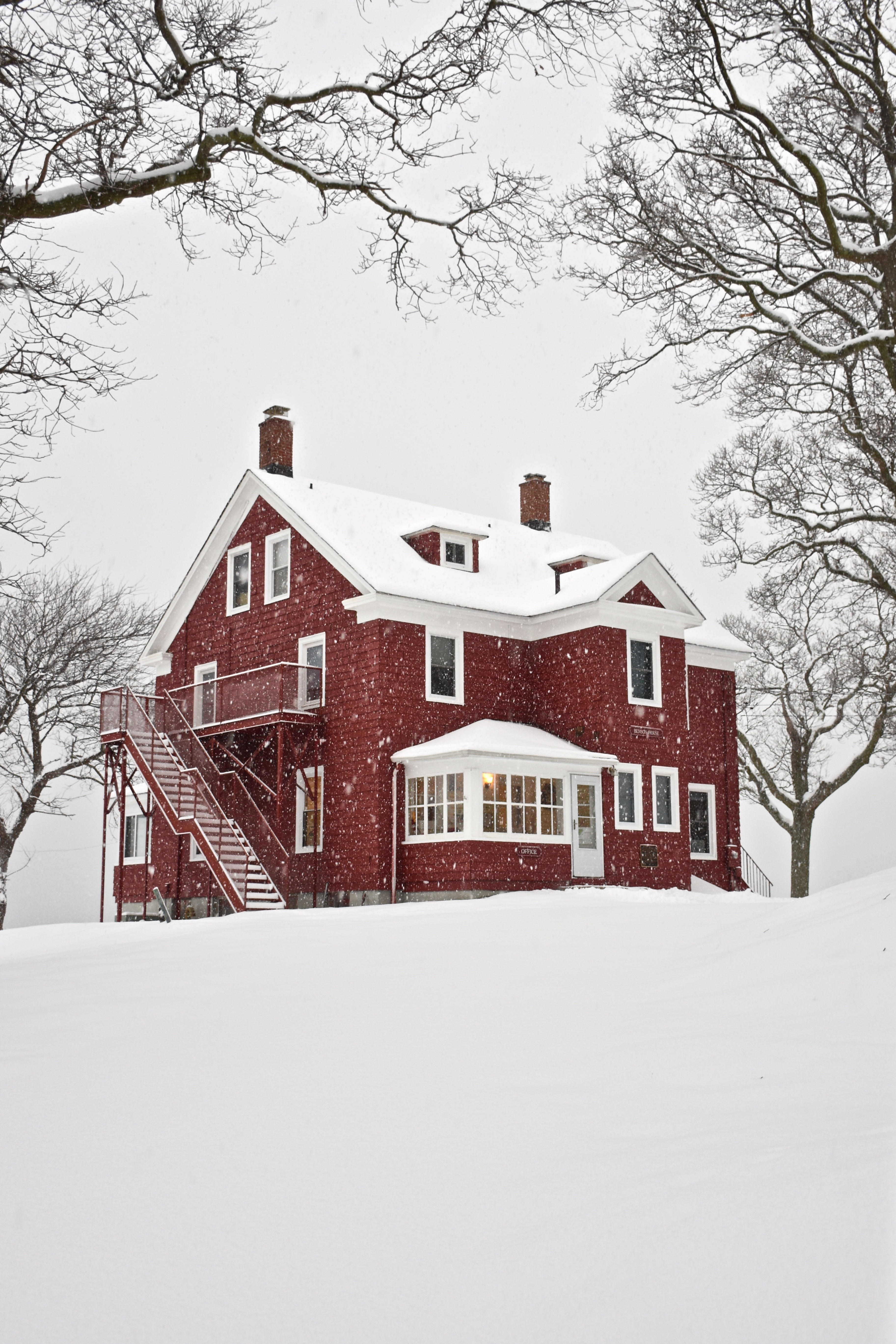 Benson House in December of 2016. During World War II a covert operation run from the house fed disinformation to the Abwehr.